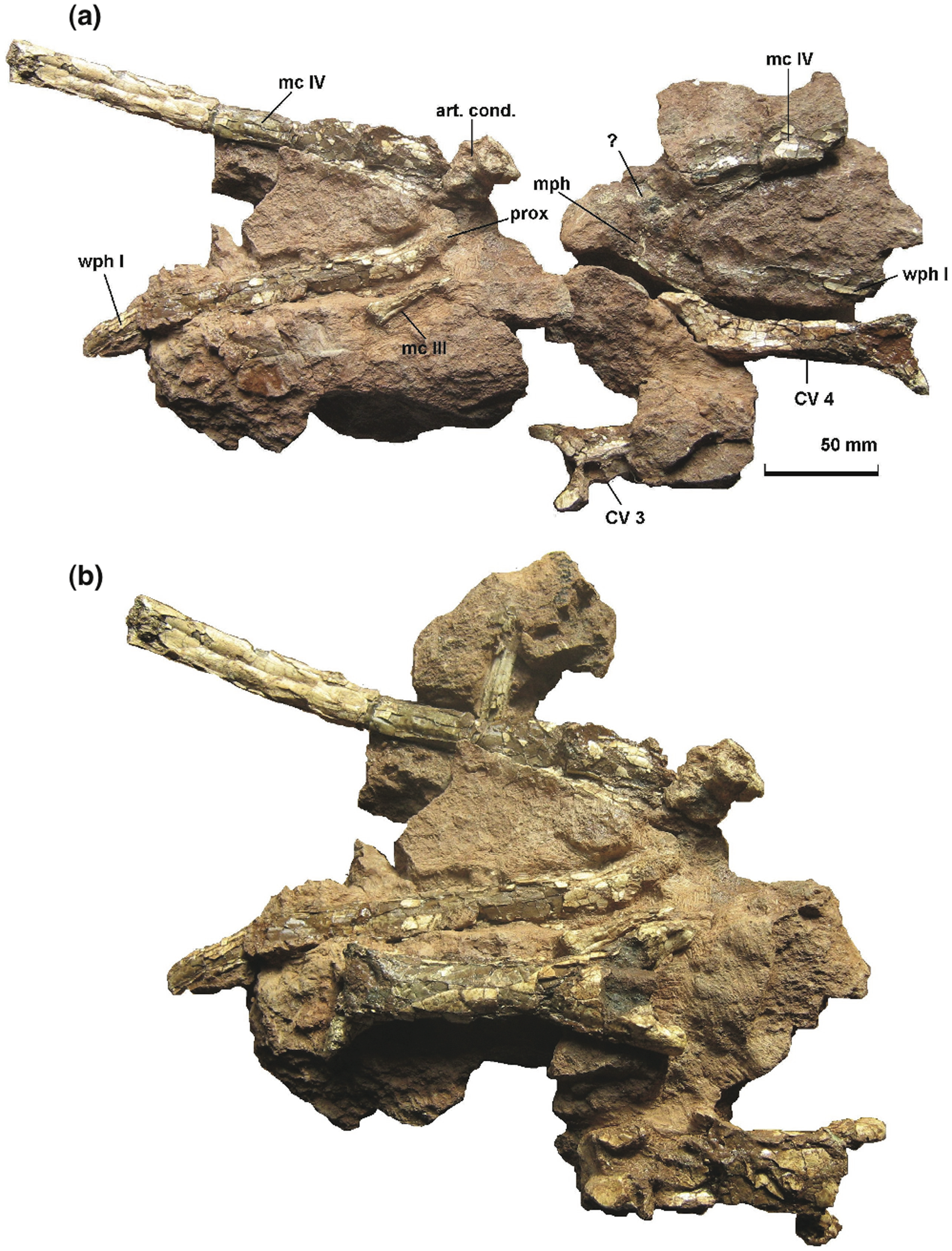 Preserved elements of Eurazhdarcho langendorfensis re-assembled as found in partial articulation. EME VP 312. (a) Slab and counter-slab with cervical vertebrae in dorsal view. (b) Specimen in original position with cervicals in ventral view.